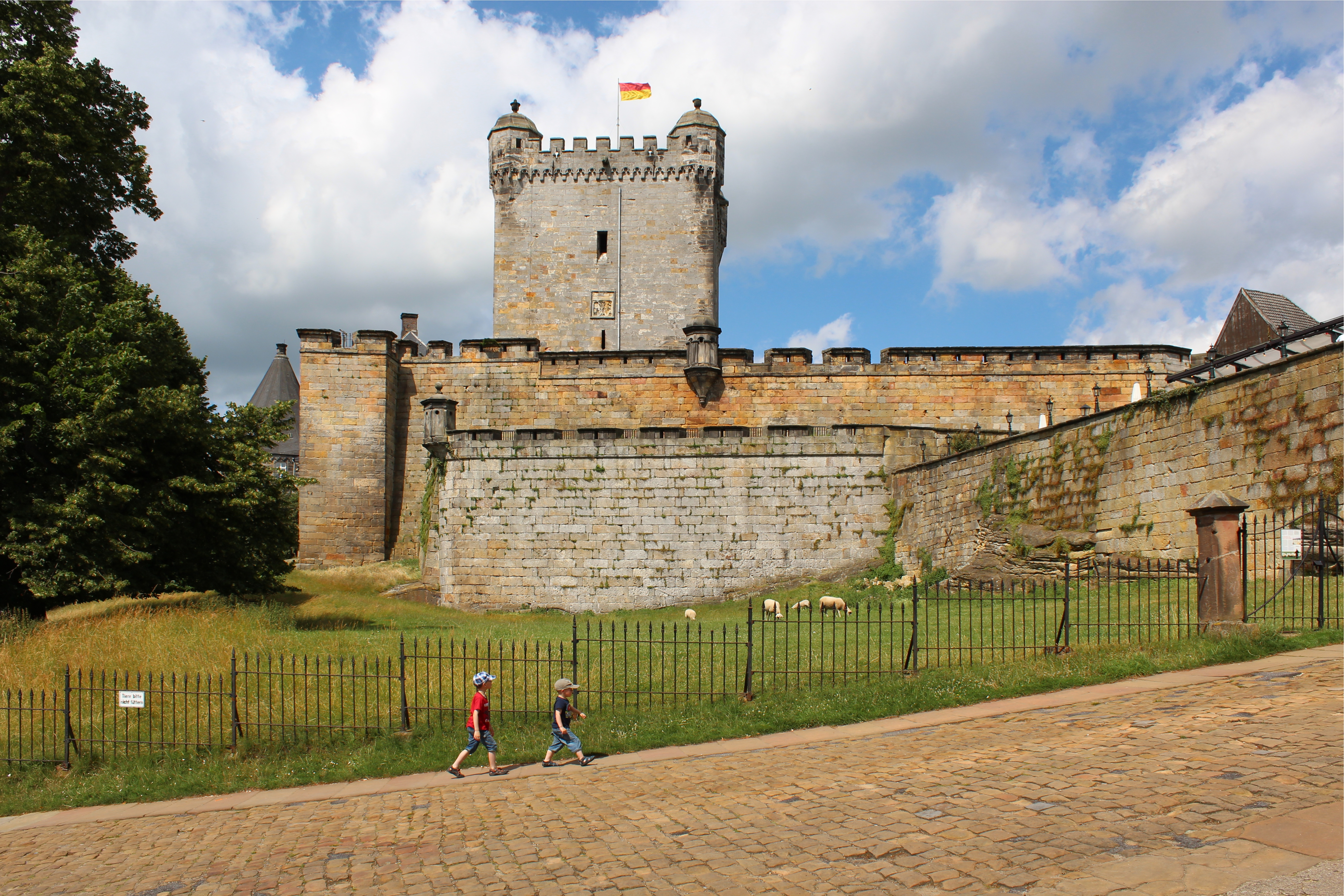 Burg Bentheim, Pulverturm, ("powdertower") from the 11th or 12th century.